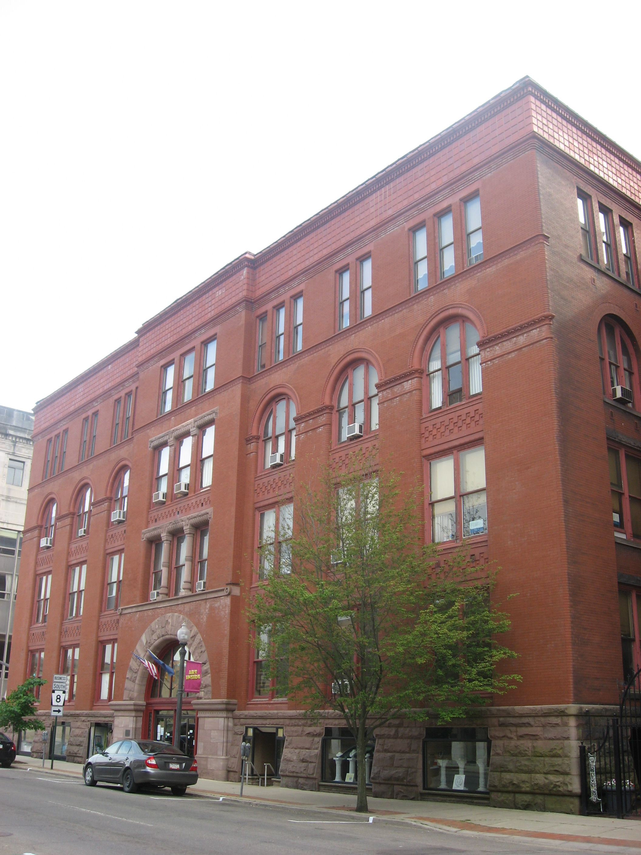 Front of the National Transit Building, located at 206 Seneca Street in Oil City, Pennsylvania, United States. Built in 1890, it is listed on the National Register of Historic Places, and it is part of a Register-listed historic district, the Oil City Downtown Commercial Historic District.